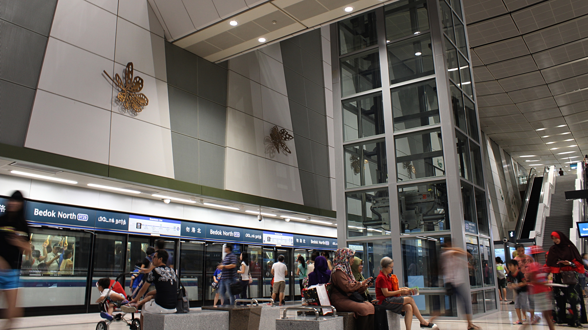 DT29 Bedok North station